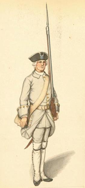 french soldier of the 1 st regiment of line (Picardie) A.D. 1750